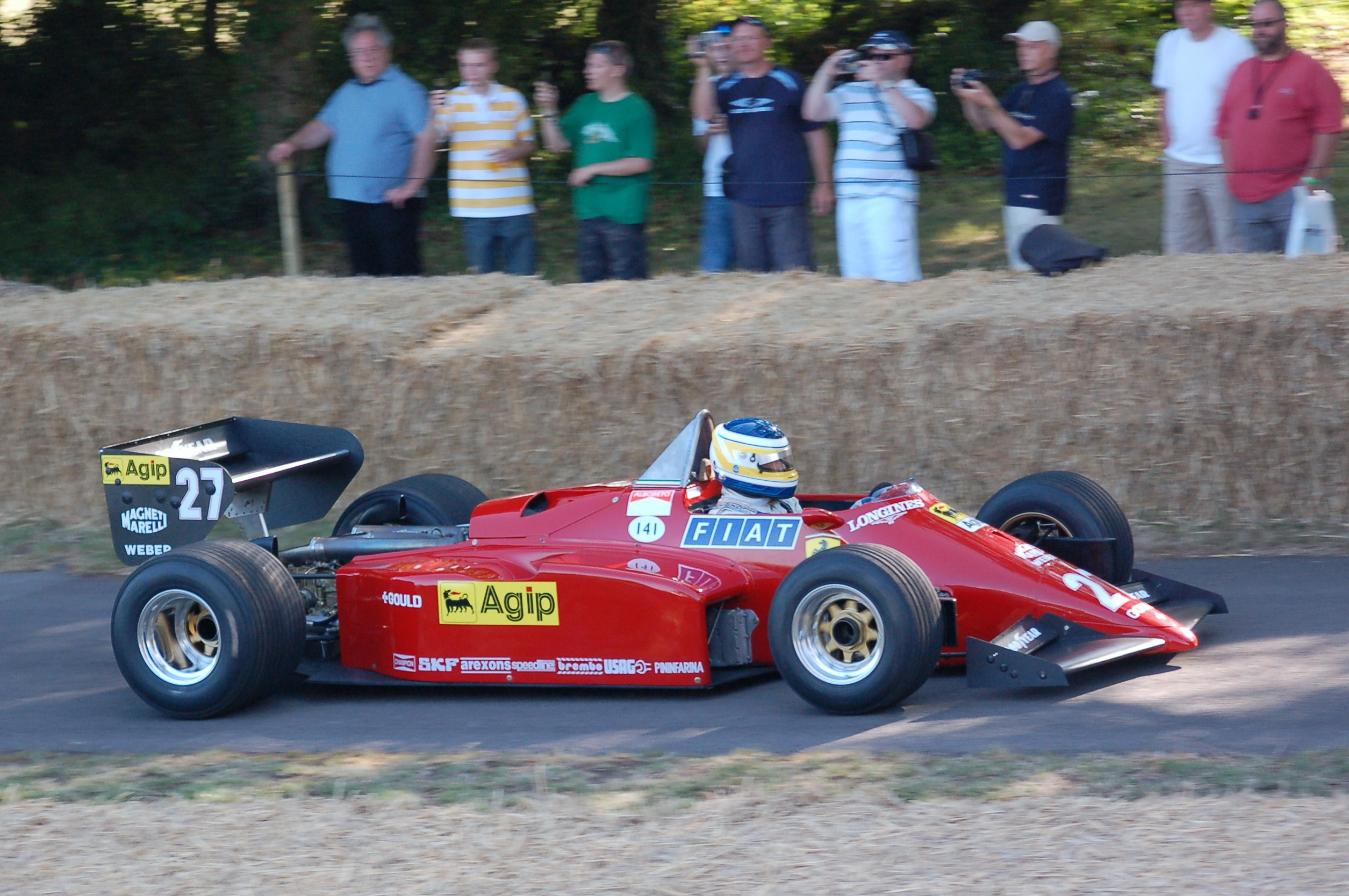 A 1984 Ferrari 126C4M2 being demonstrated at the Goodwood Festival of Speed.